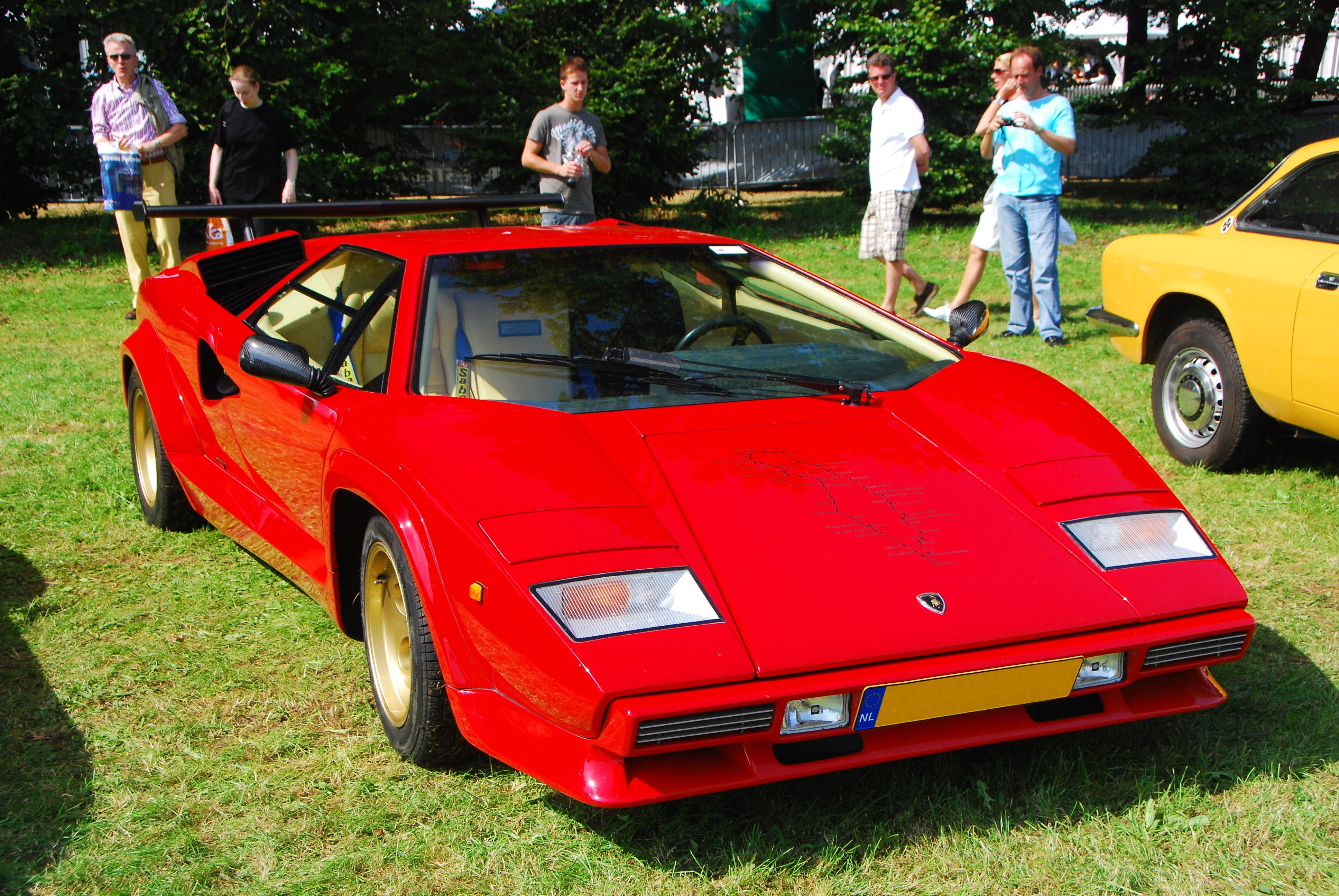 Lamborghini Countach seen at Concours d'Elegance in the garden of The Loo Palace in Apeldoorn (NL)